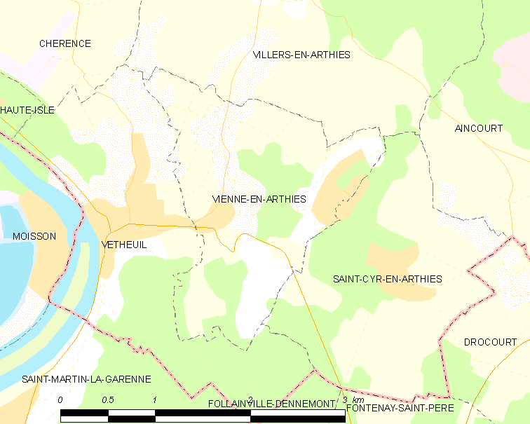 Map of French municipality Vienne-en-Arthies